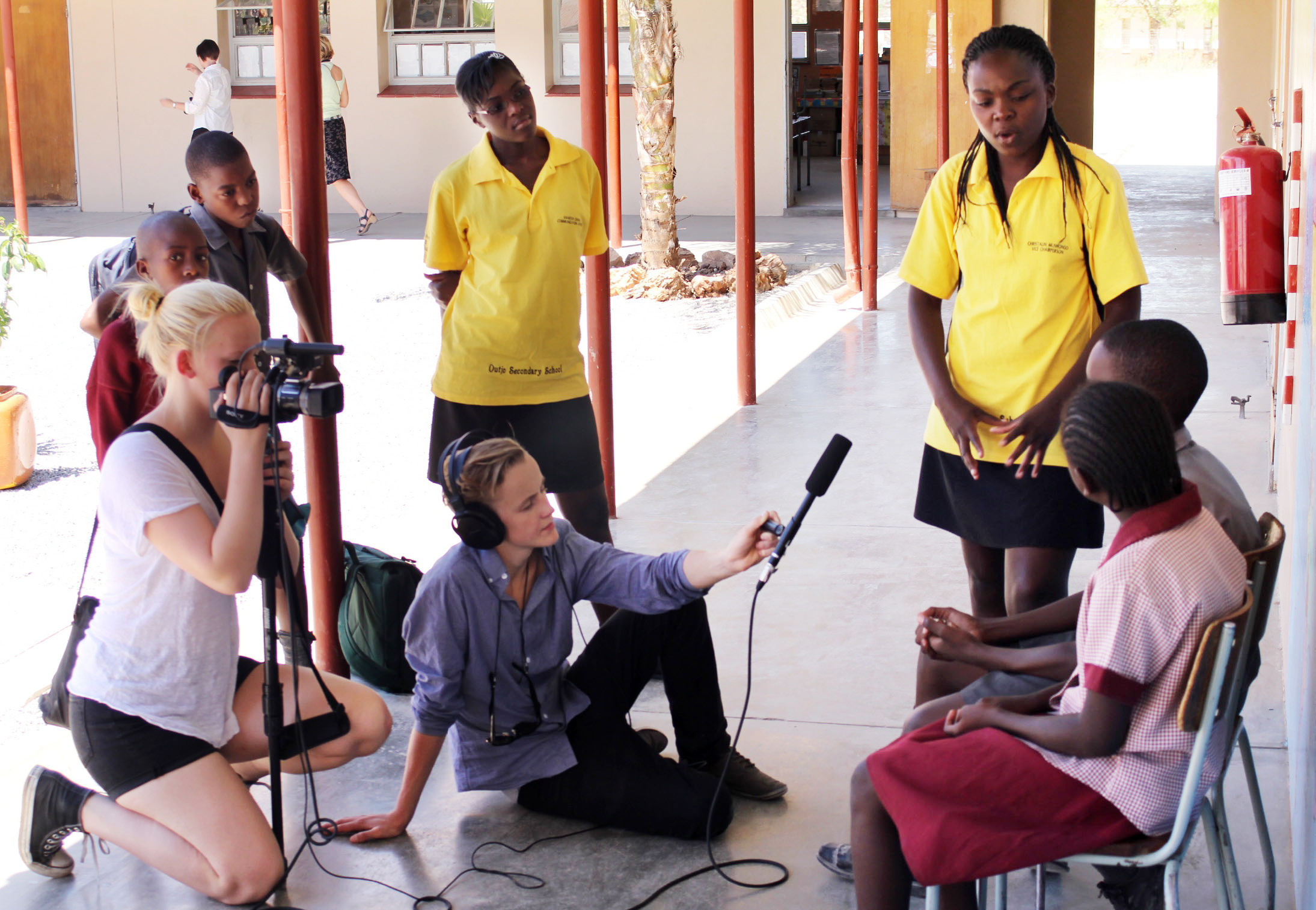 Picture from ELIMU exchange program (Friendship North/South).